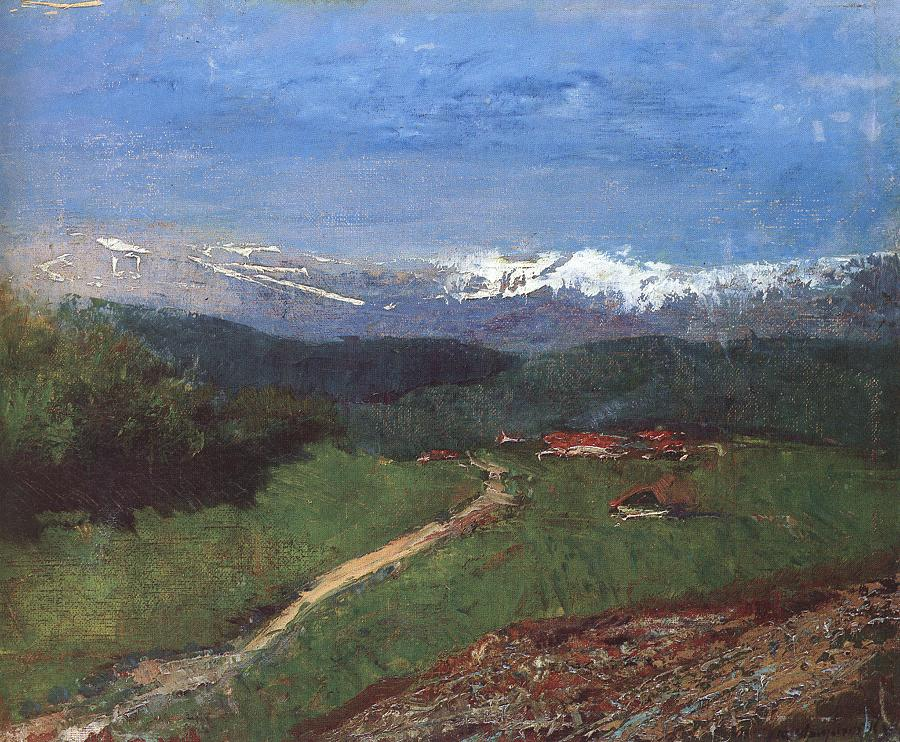 Landscape in the Alps, view from the Rax